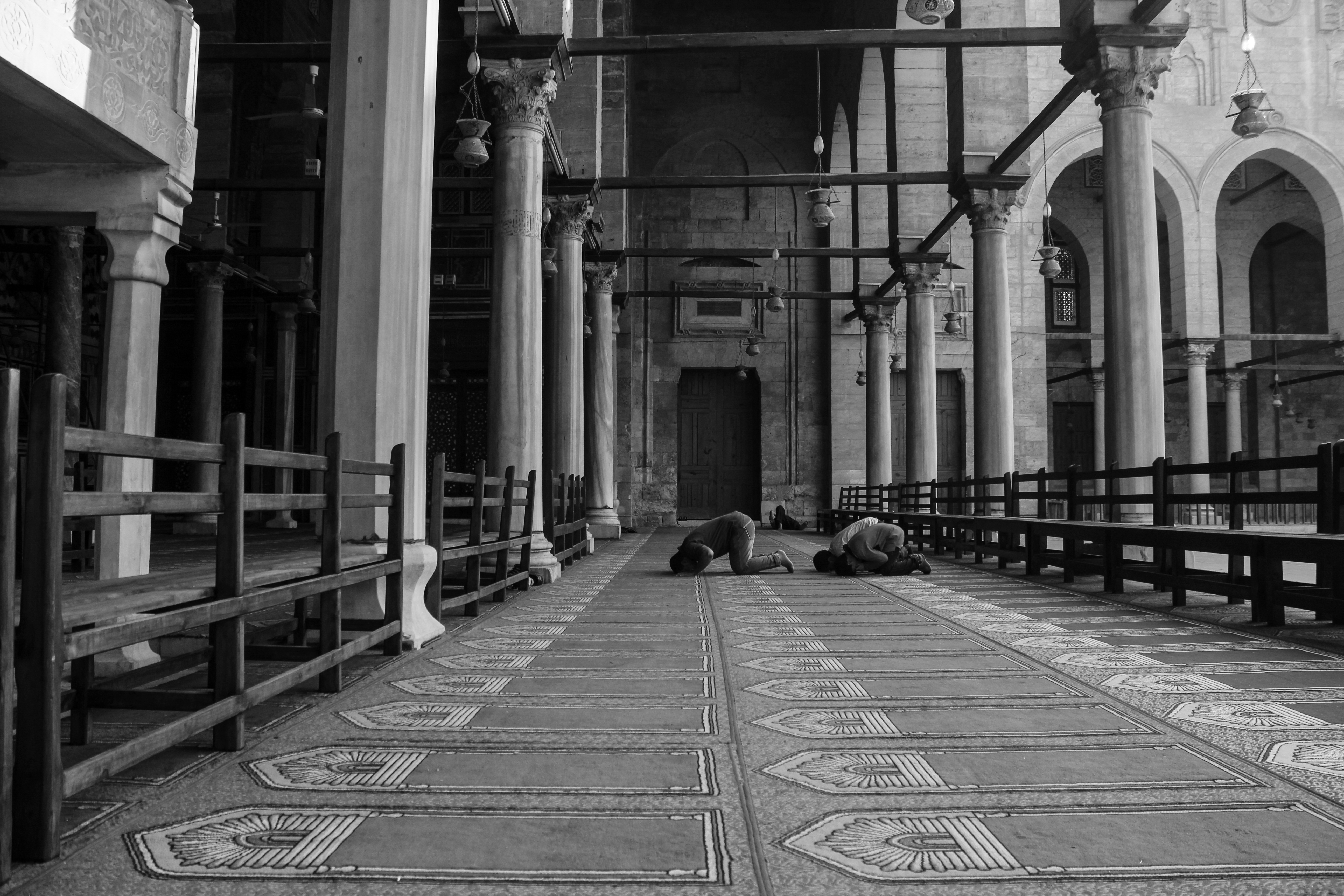 Mosque of Sultan al-Muayyad